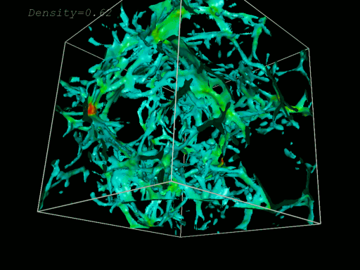 NASA Image of the day. Lyman Alpha absorption comes from ambient gas in the universe between us and distant quasars. This is a simulation of what clouds could've looked like at z=3 We live in a forest. Strewn throughout the universe are "trees" of hydrogen gas that absorb light from distant objects. These gas clouds leave numerous absorption lines in a distant quasar's spectra, together called the Lyman-alpha forest. Distant quasars appear to be absorbed by many more Lyman-alpha clouds than nearby quasars, indicating a Lyman-alpha thicket early in our universe. The above image depicts one possible computer realization of how Lyman-alpha clouds were distributed at a redshift of 3. Each side of the box measures 30 million light-years across. Much remains unknown about the Lyman-alpha forest, including the real geometry and extent of the clouds, and why there are so many fewer clouds today.